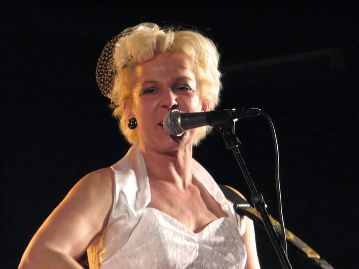 Eva Eastwood playing at a gig in Sundsvall